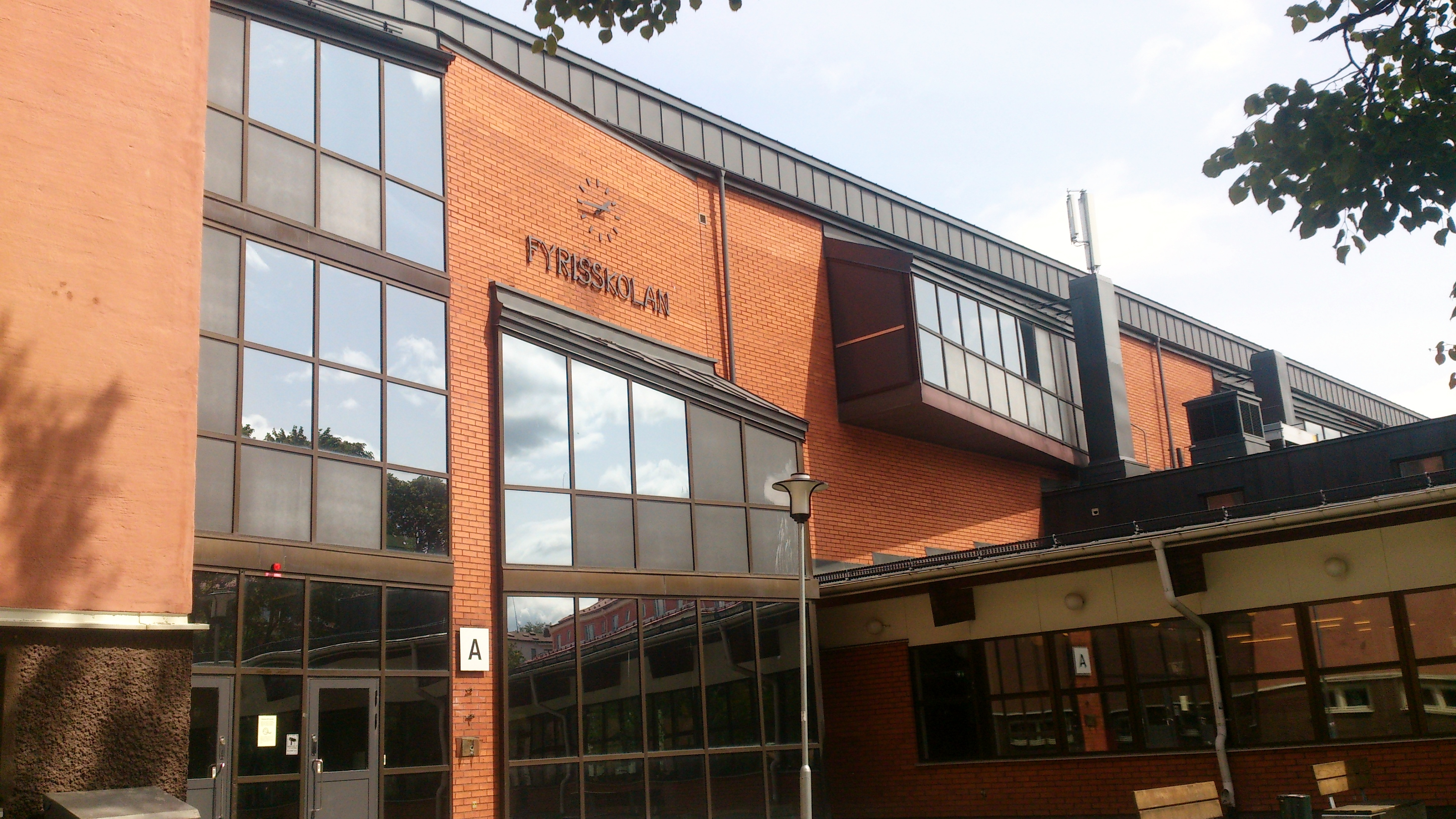 Fyrisskolan in Uppsala June 25, 2014